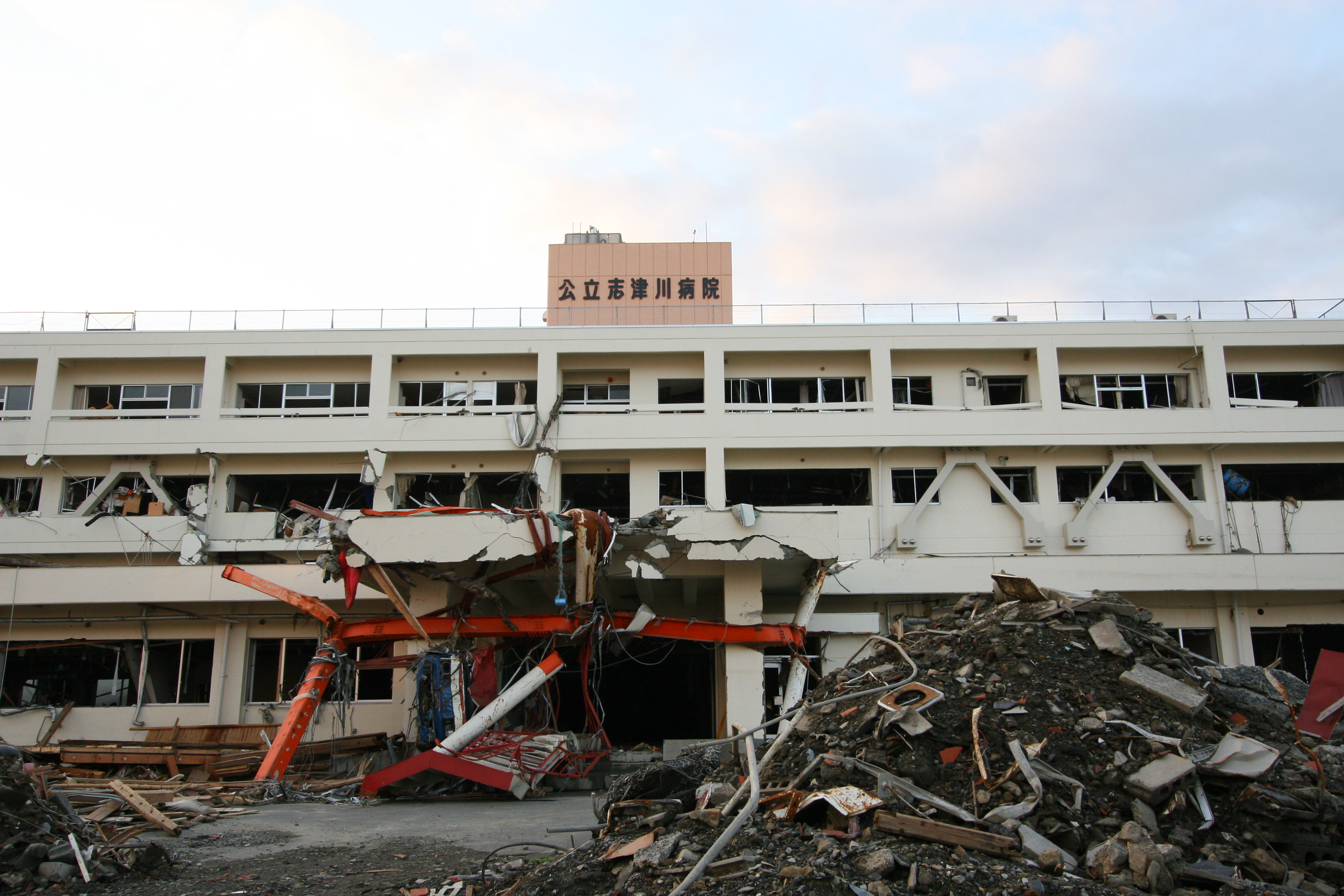 The Shizugawa Public Hospital in Minamisanriku, Miyagi, Japan, a month after the 2011 East Japan Great Earthquake